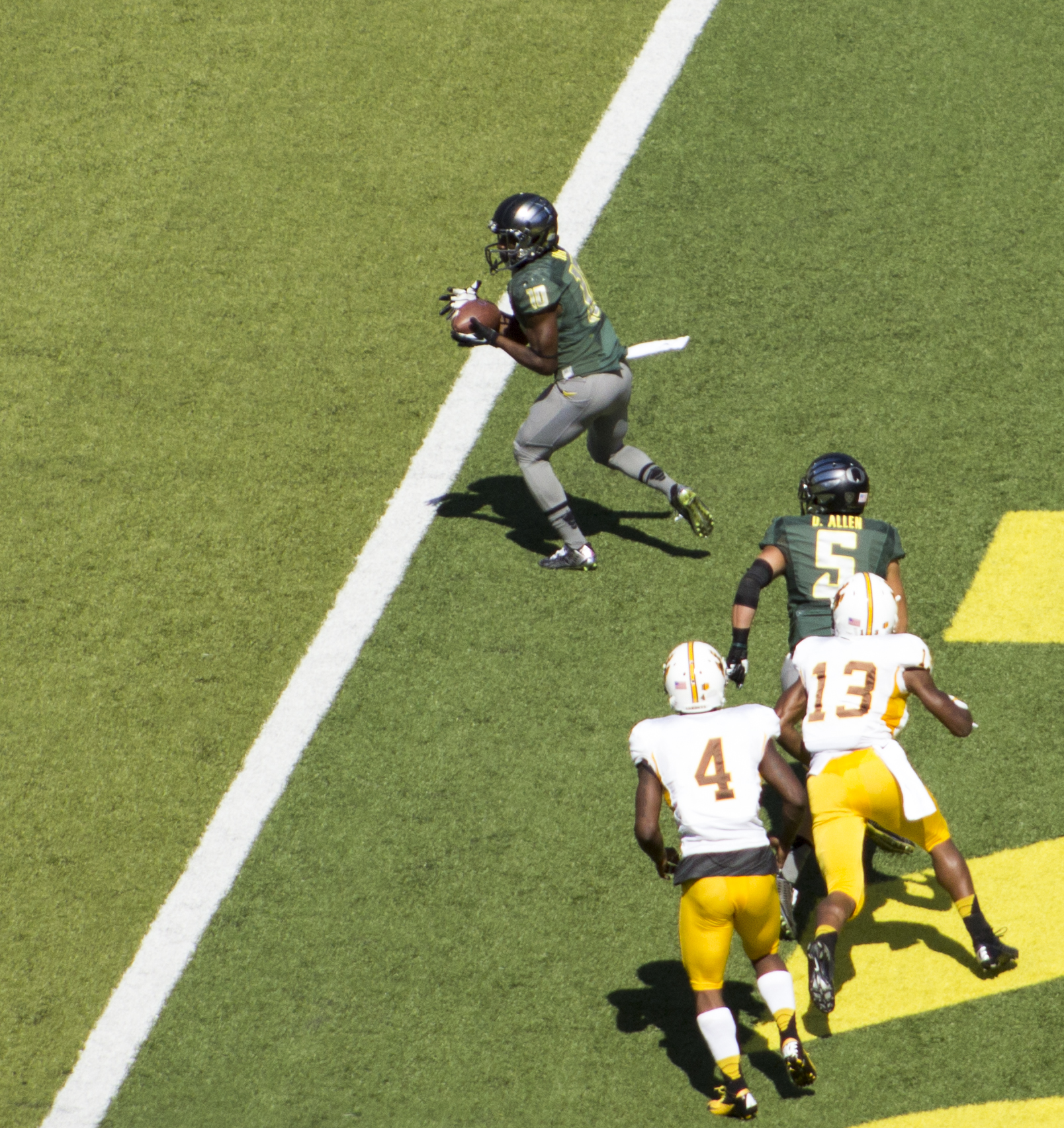 Oregon wide receiver (and basketball star) Johnathan Loyd catches his first touchdown pass.